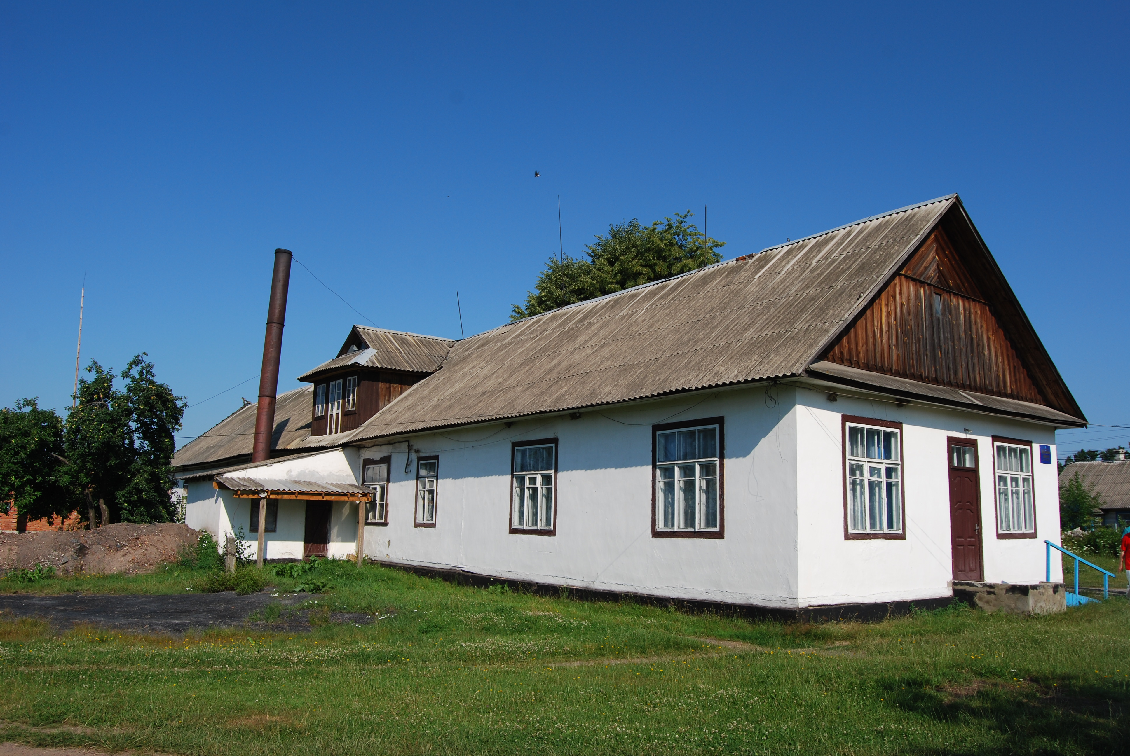 Pre-war Polish school, now the center of health.